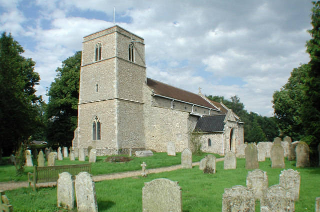 All Saints, Weston Longville, Norfolk. Home of James Woodforde